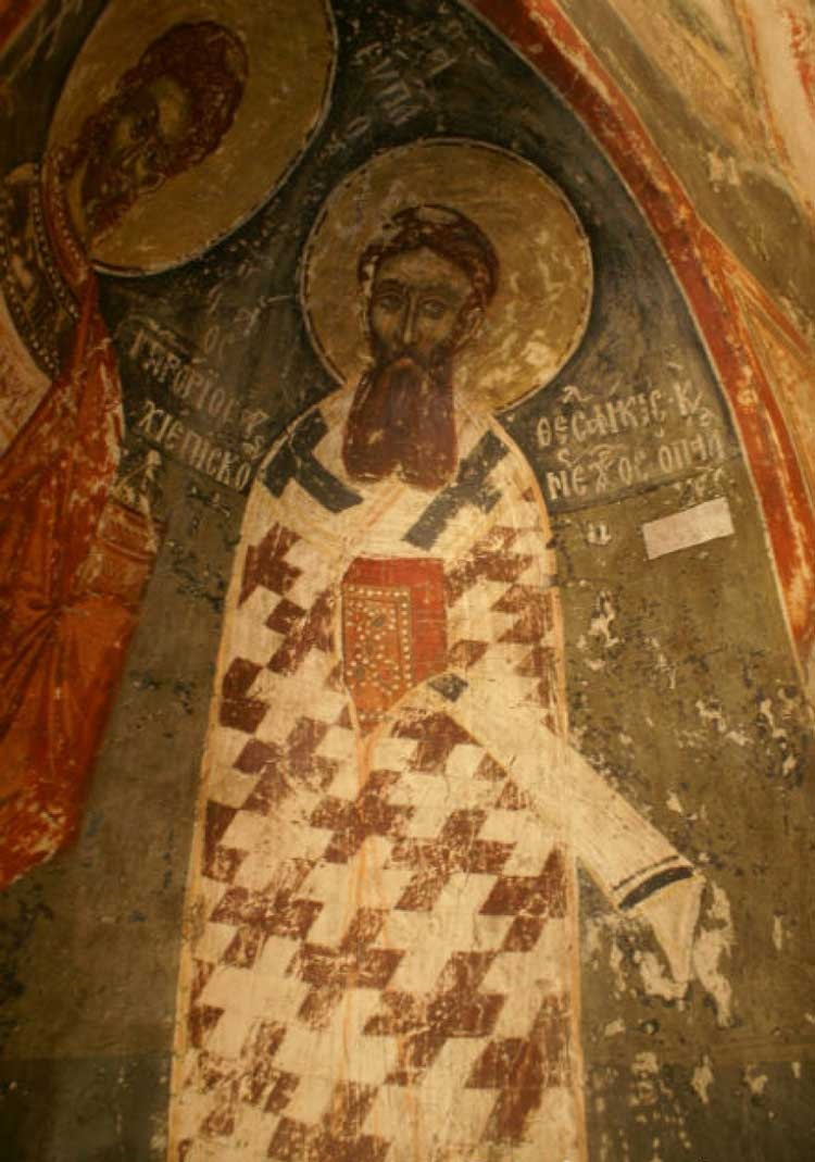 Saint Gregory Palamas Fresco in Saints Three Church in Kastoria